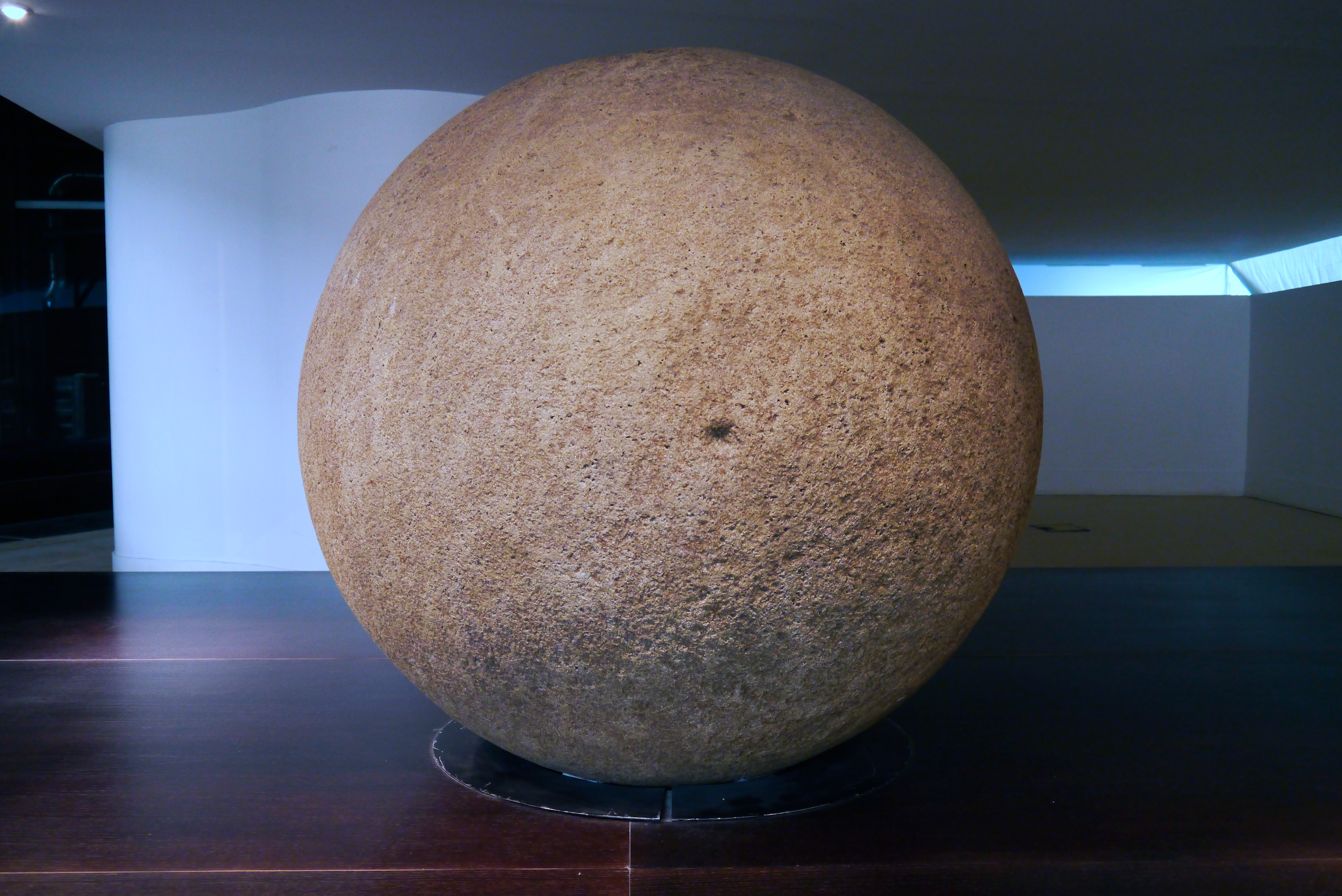 Stone sphere, Diquís region, Costa Rica. Exposed in lobby of musée du quai Branly, Paris, France. Temporary loan from Museo Nacional de Costa Rica. (ref. 28-439)